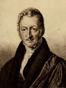 Portrait of Thomas Malthus